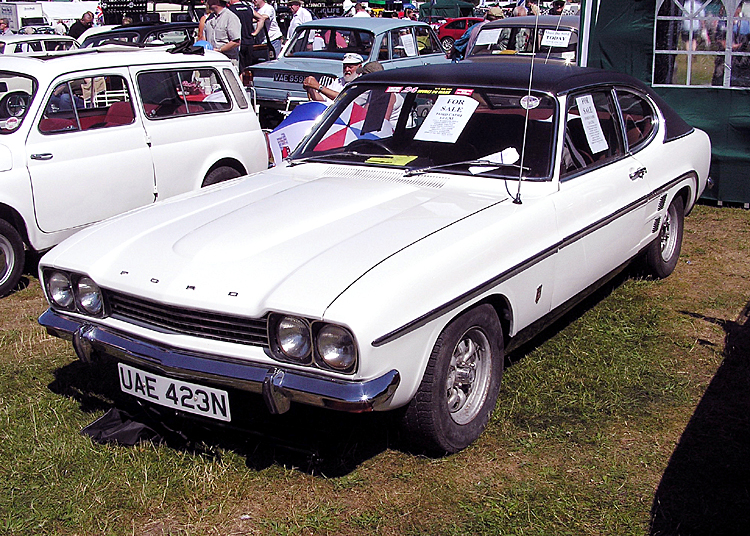 1974 Ford Capri 3.0 GXL at Bristol Car Show, The Downs, Bristol, England.